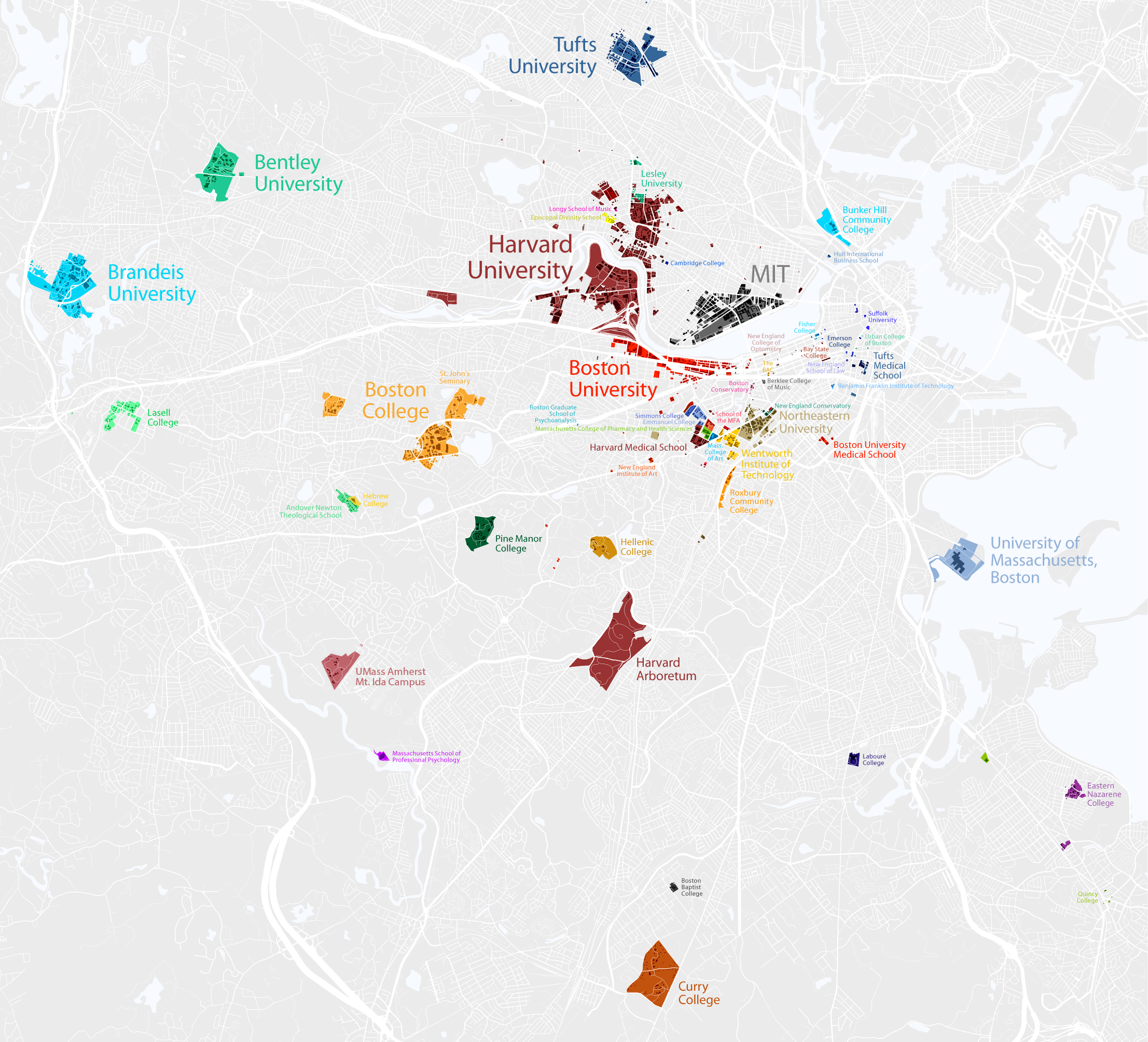 Map of colleges and universities in the Boston, Massachusetts area